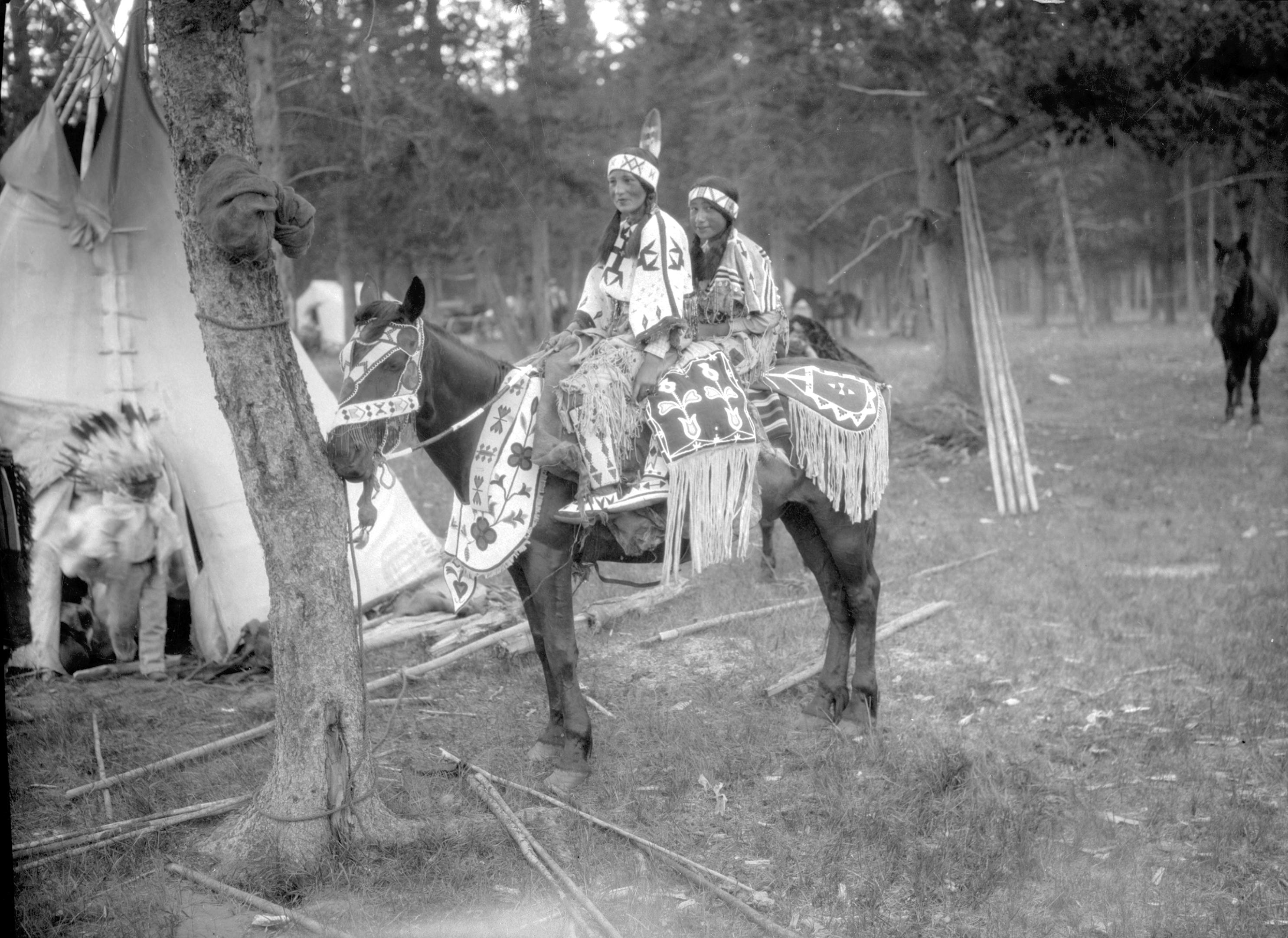 Near Banff, Alberta. From the Paul Coze fonds, PR2006.0508/6.